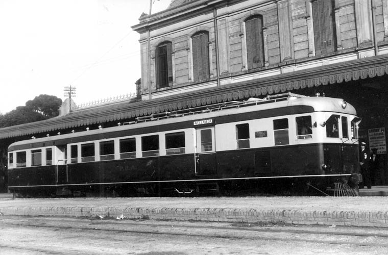 Railcar by Sulzer that ran on FC Provincial de Buenos Aires.